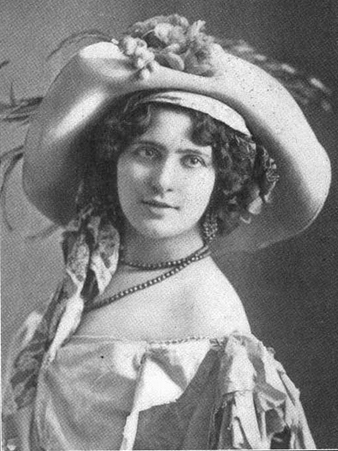 Rosario Guerrero, from a 1905 publication. A young white woman with curly hair, wearing a large brimmed hat, a beaded necklace, and an off-the-shoulder bodice.